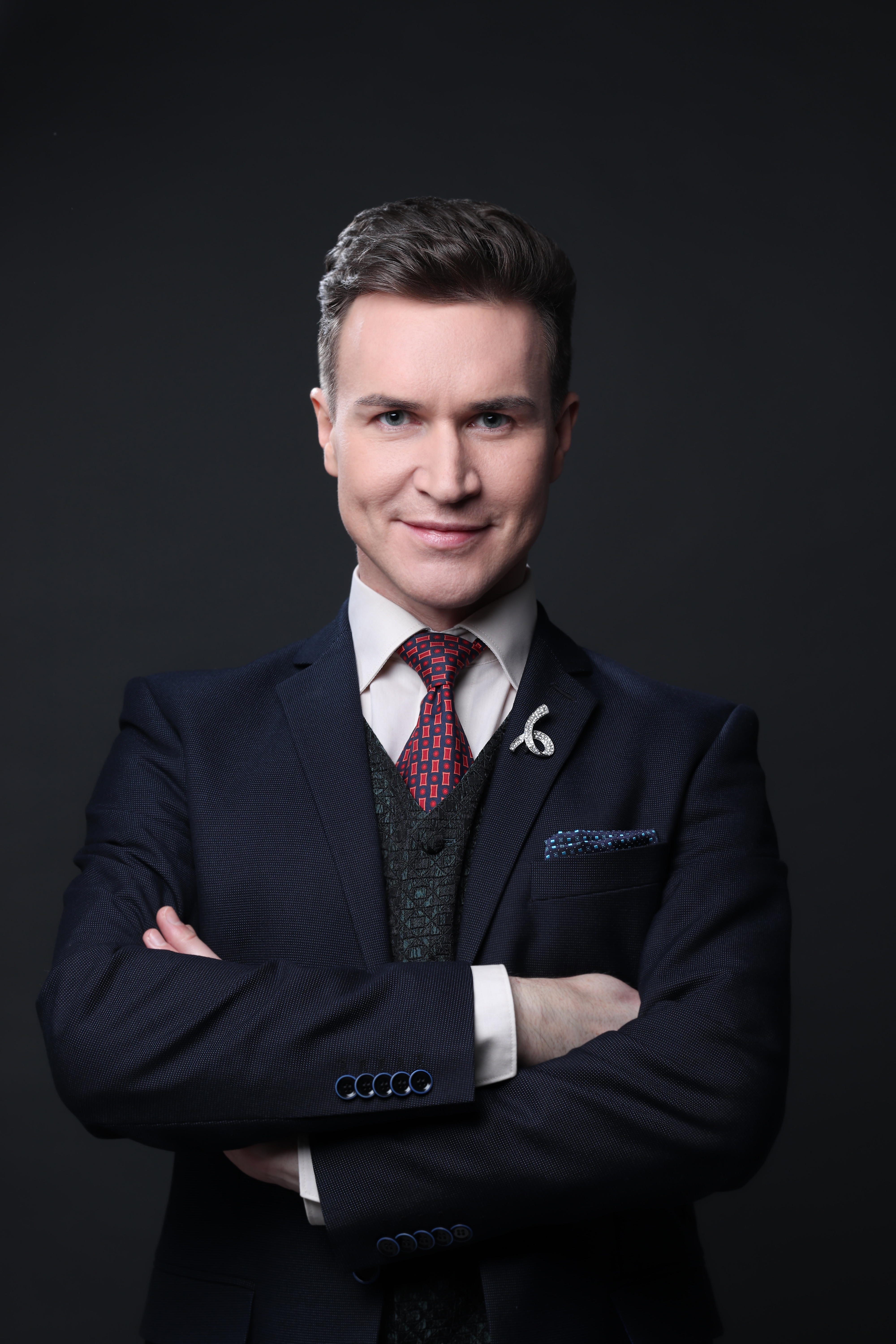 Сергей Плюснин - Москва - 2017 год